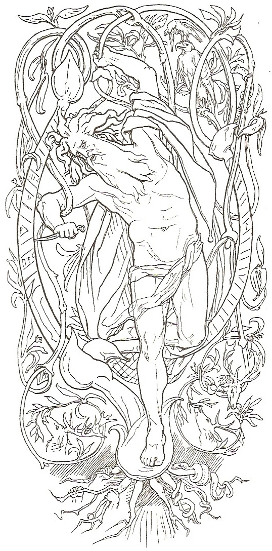 Odin sacrifices himself to himself by hanging from the world tree Yggdrasil (which is inhabited by various creatures), as attested in Hávamál. Image appears as an illustration for Hávamál. No caption or title given in work.